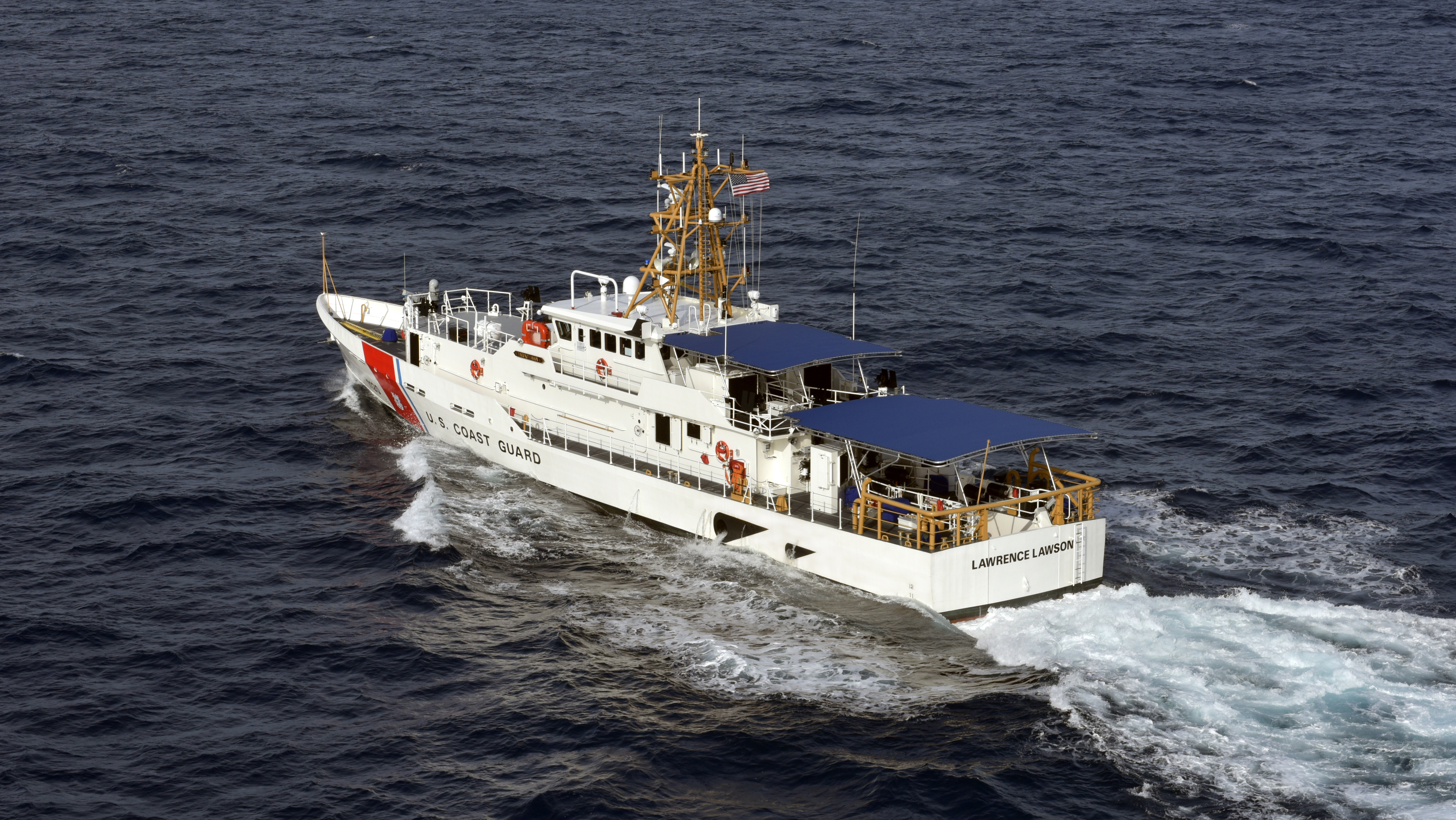 Lawrence Lawson conducts sea trials off the coast of Miami, Florida Original caption: “ The Coast Guard Cutter Lawrence Lawson conducts sea trials off the coast of Miami, Florida, on Dec. 12, 2016. The ship will be the second fast response cutter stationed in Cape May, New Jersey, and is scheduled for commissioning in early 2017. (U.S. Coast Guard photo by Eric D. Woodall) ”